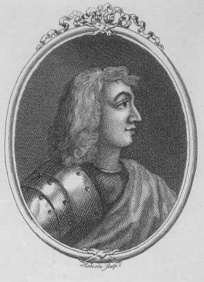 Portrait of Causantín mac Cináeda, Rex Pictorum (862–877)